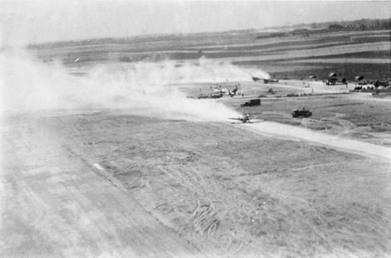 A Royal Air Force Second Tactical Air Force Supermarine Spitfire Mark IX, based in the United Kingdom, landing at to refuel at B3/Ste Croix-sur-Mer, Normandy.